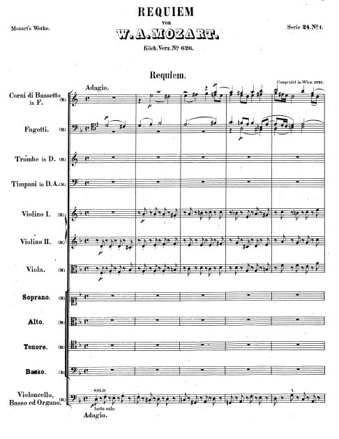 Page 1 of Mozart's Requiem in d minor 中文（香港）: 莫扎特《安魂曲》總譜首頁